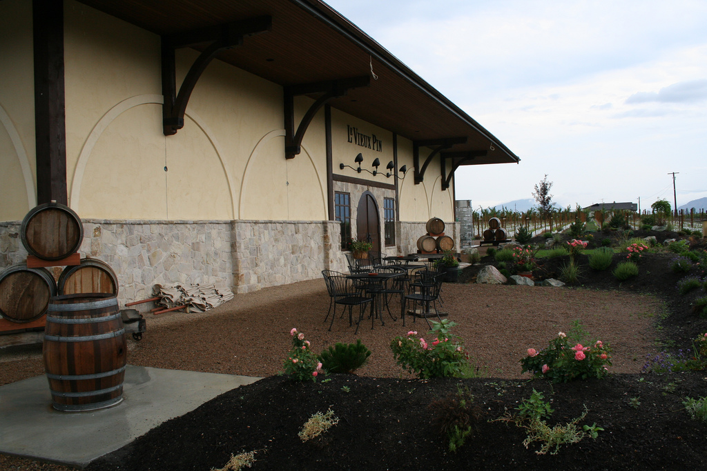 "Le Vieux Pin" Winery near Oliver, BC